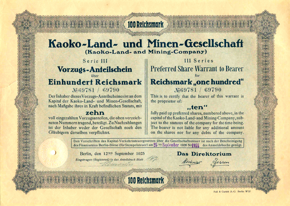 Preferred Share Warrant to Bearer for 100 Reichmarks in 1926